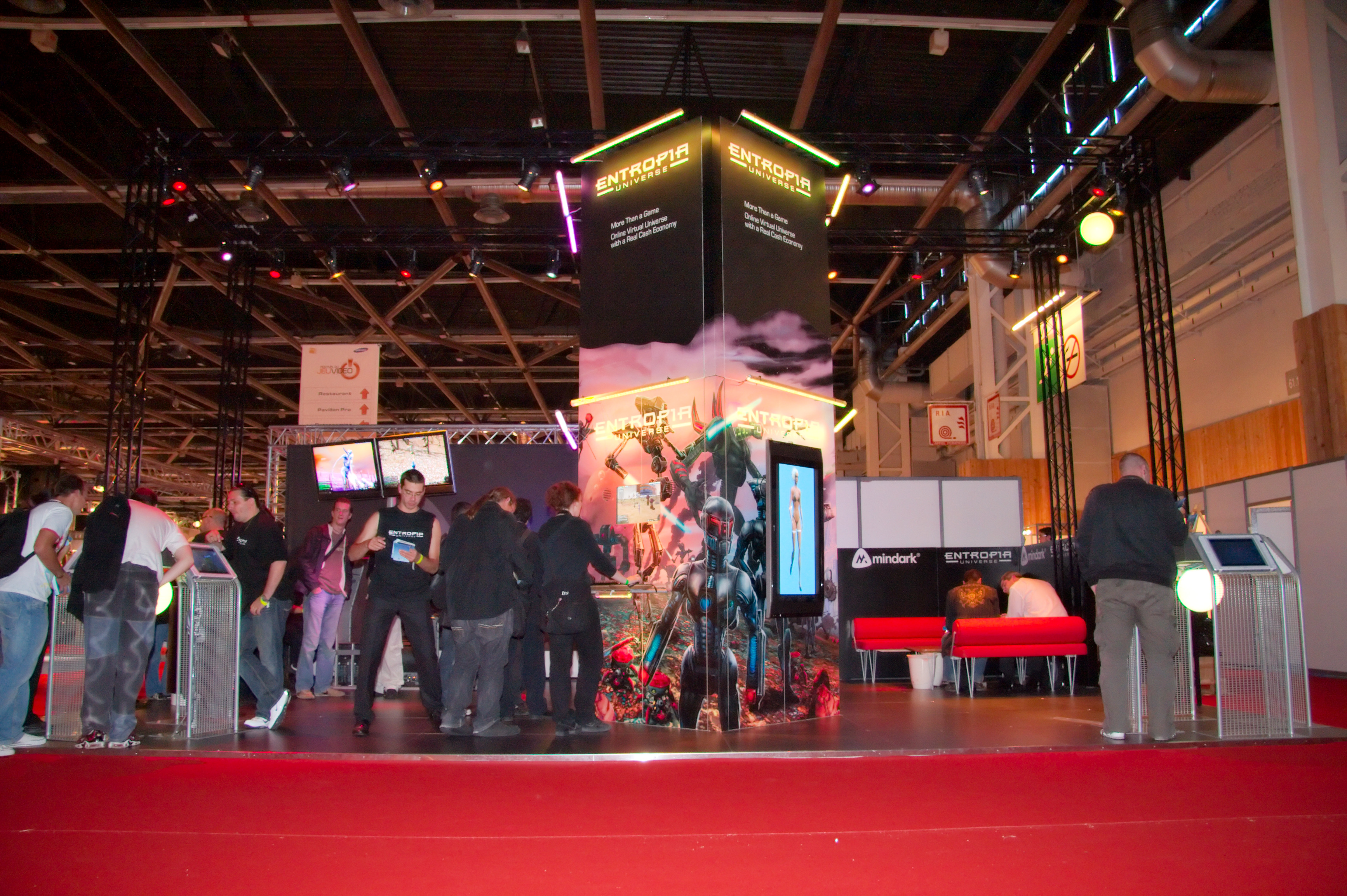 Entropia Univers. Festival du jeu vidéo 2008 (video game festival) (Paris, France).